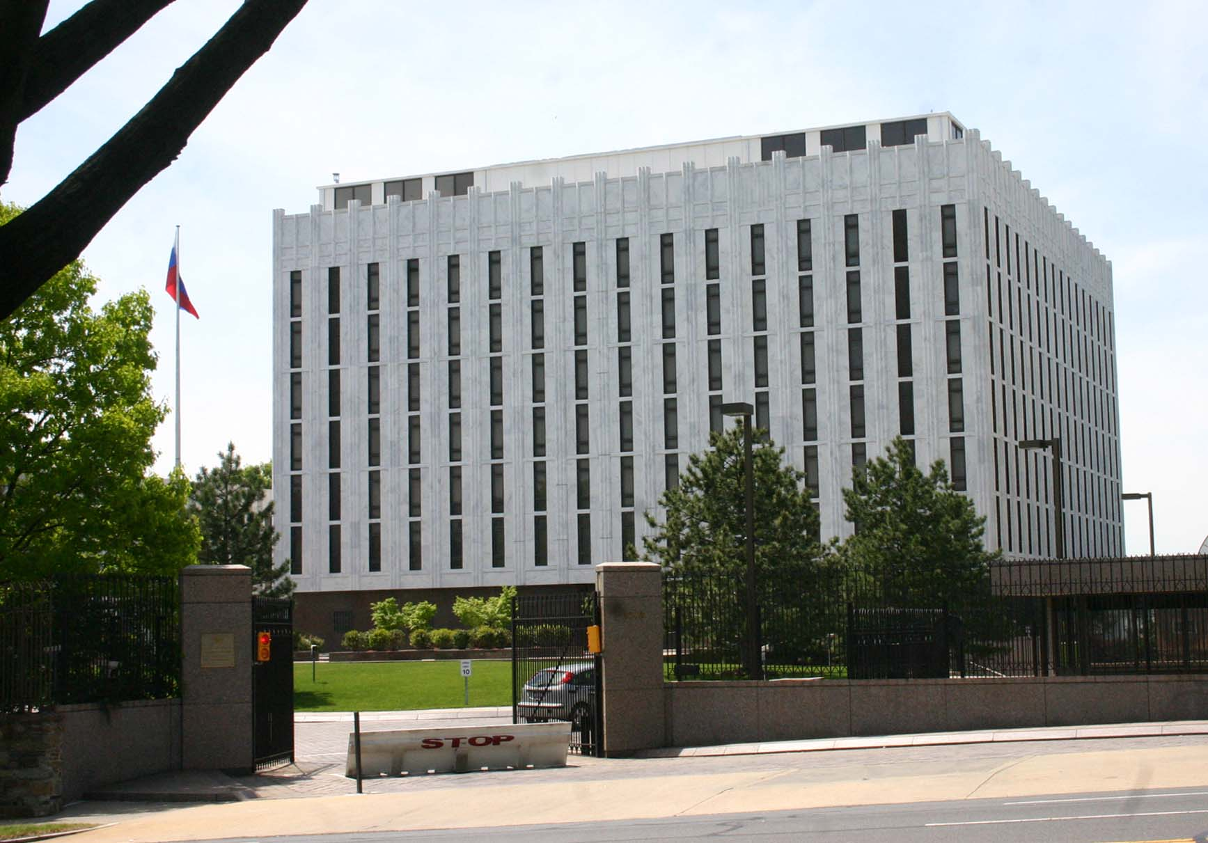 Embassy of the Russian Federation on Wisconsin Ave NW in Washington DC. This complex includes 169 apartments as well as embassy functions.